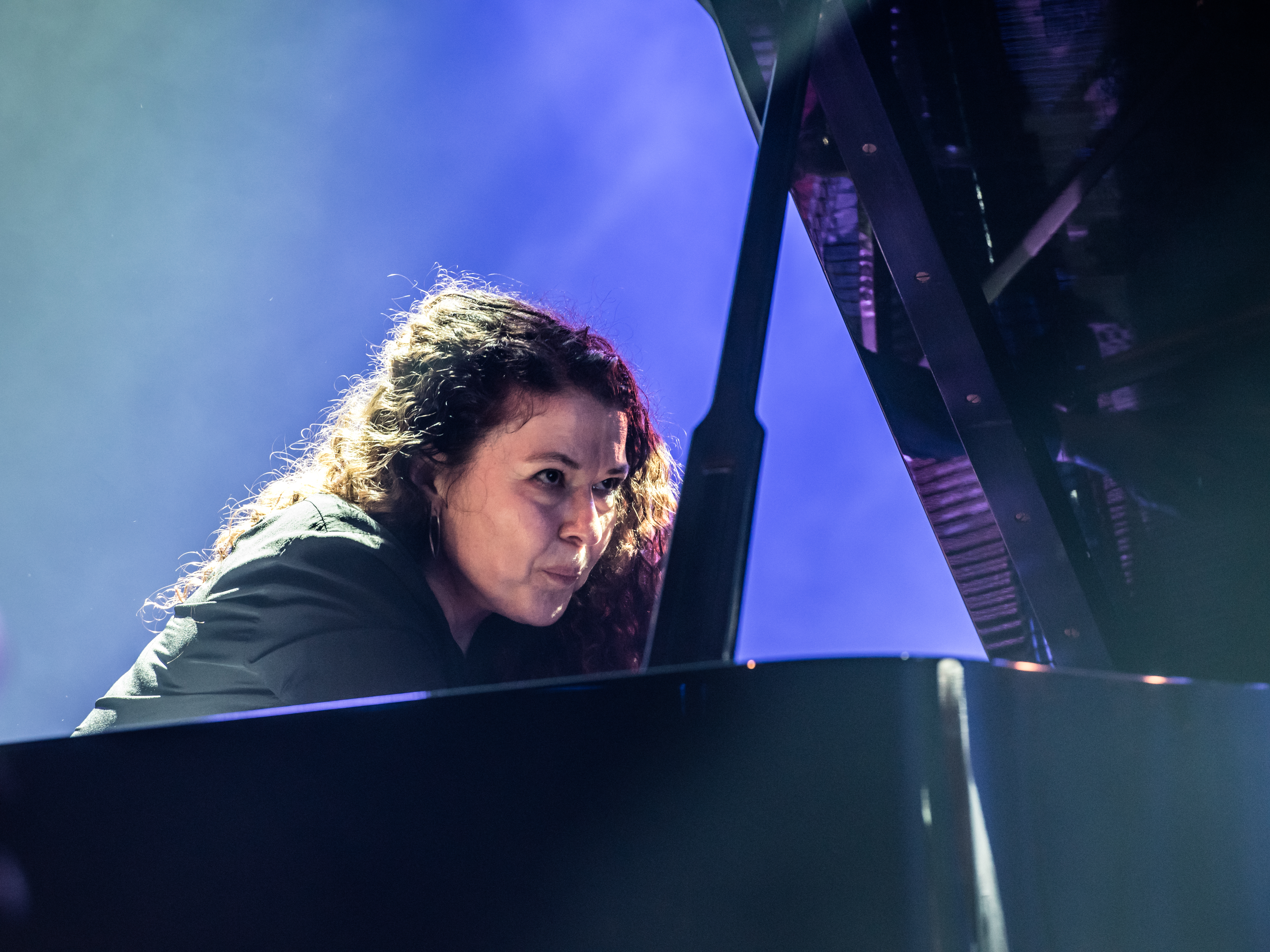 Swiss jazz pianist Sylvie Courvoisier at the Moers Festival 2017